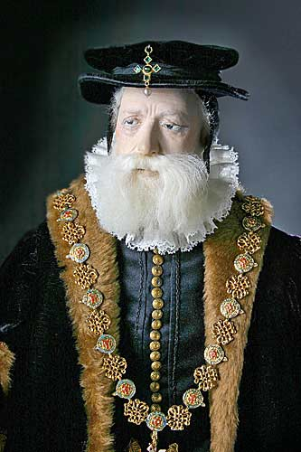 Historical figure of Sir William Cecil-Burleigh